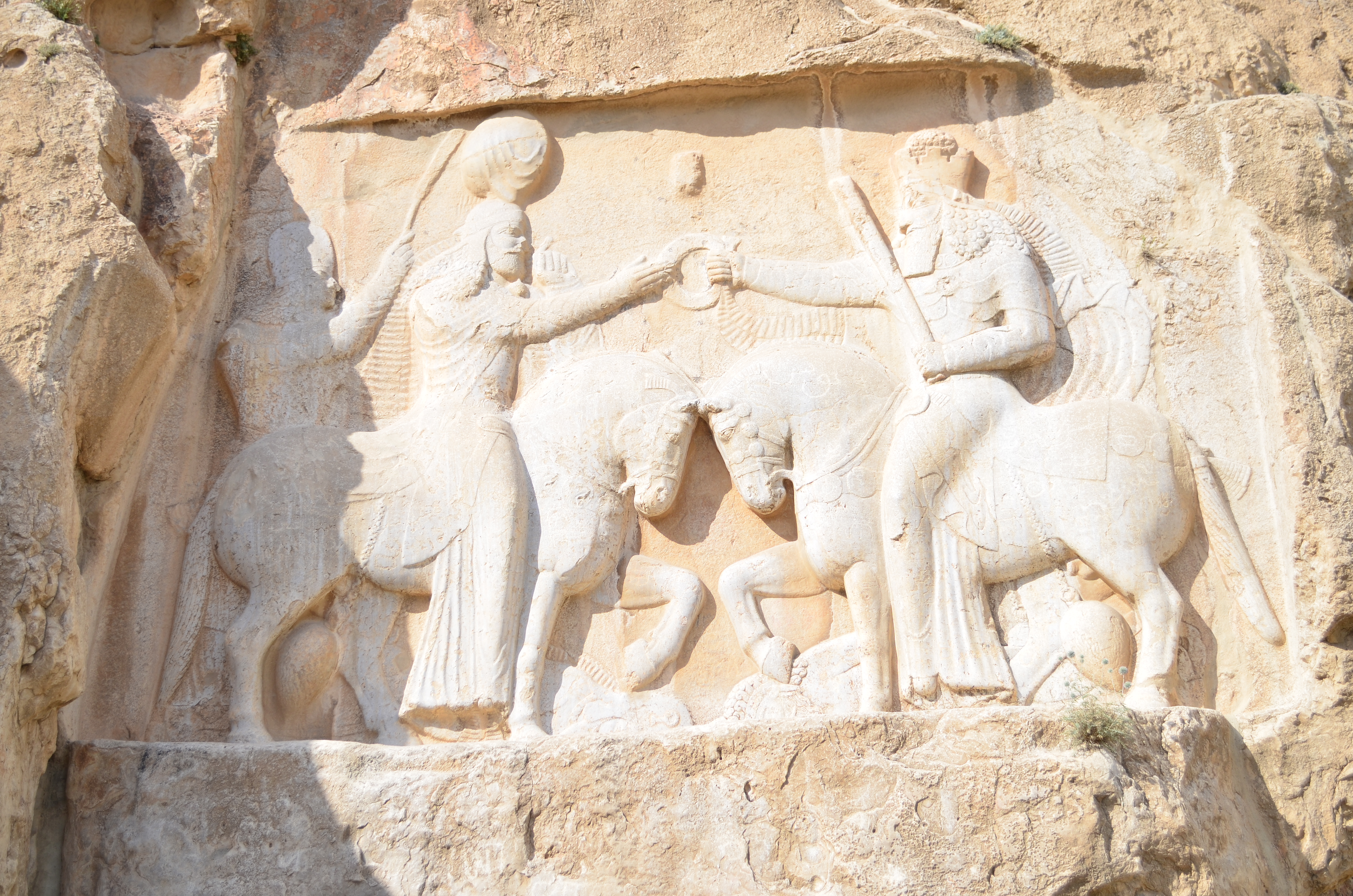 Naqsh-e Rustam